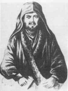 Matey Preobrazhenski (1828–1875) – Bulgarian educator and national revolutionary